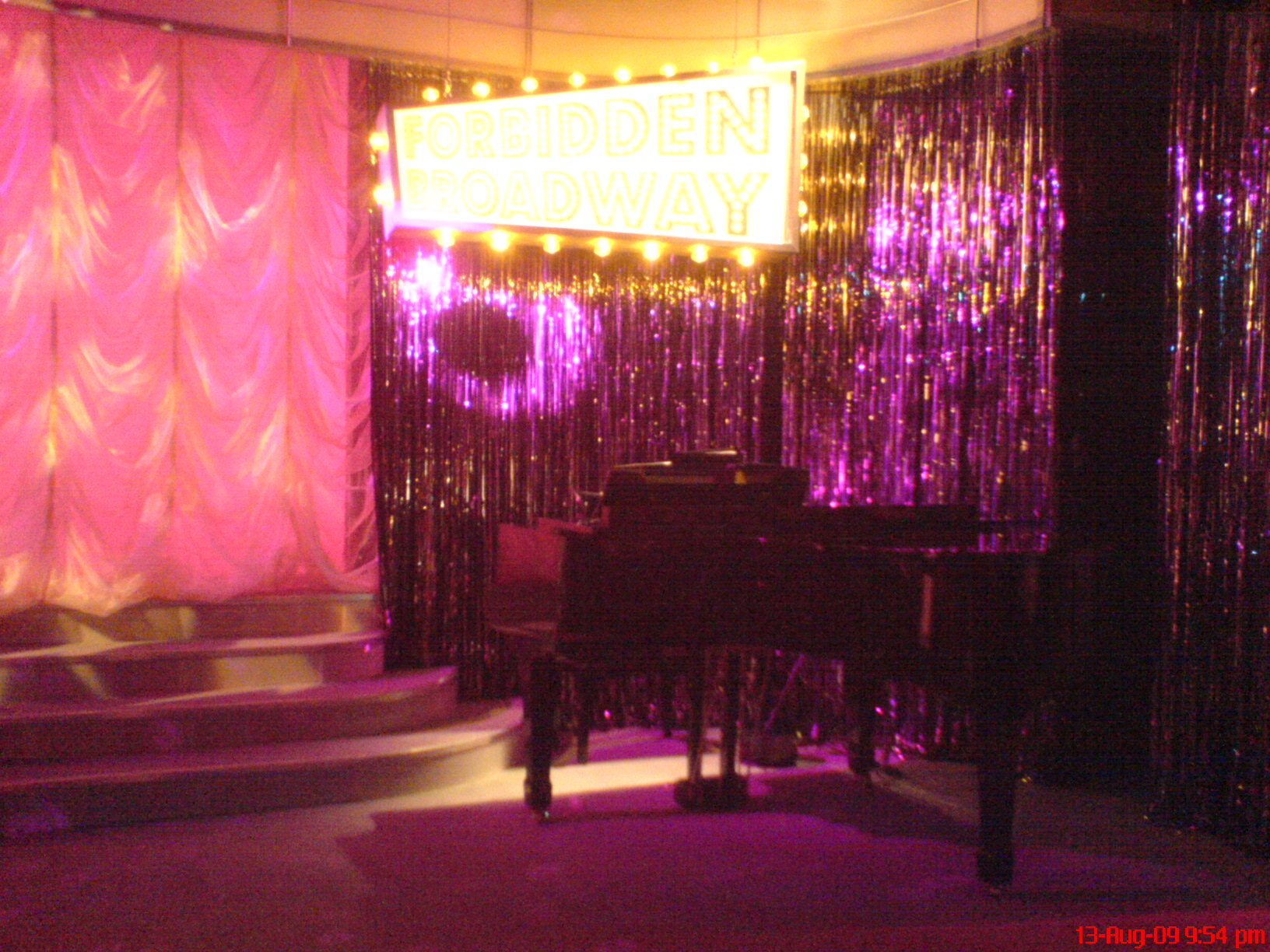 Set of Forbidden Broadway from the Menier Chocolate Factory production in 2009.